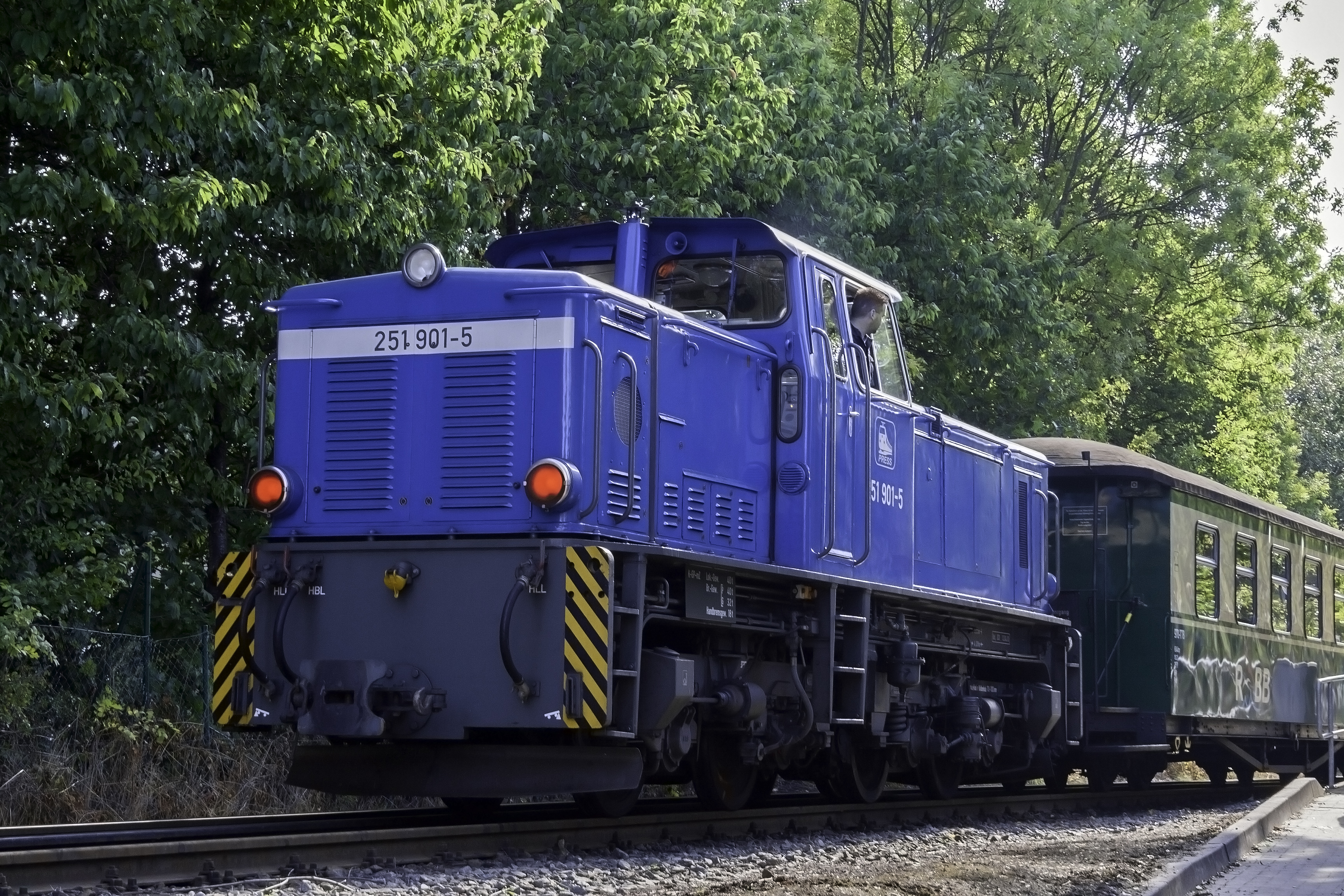 Diesel Train, Island of Rügen, Baltic Sea